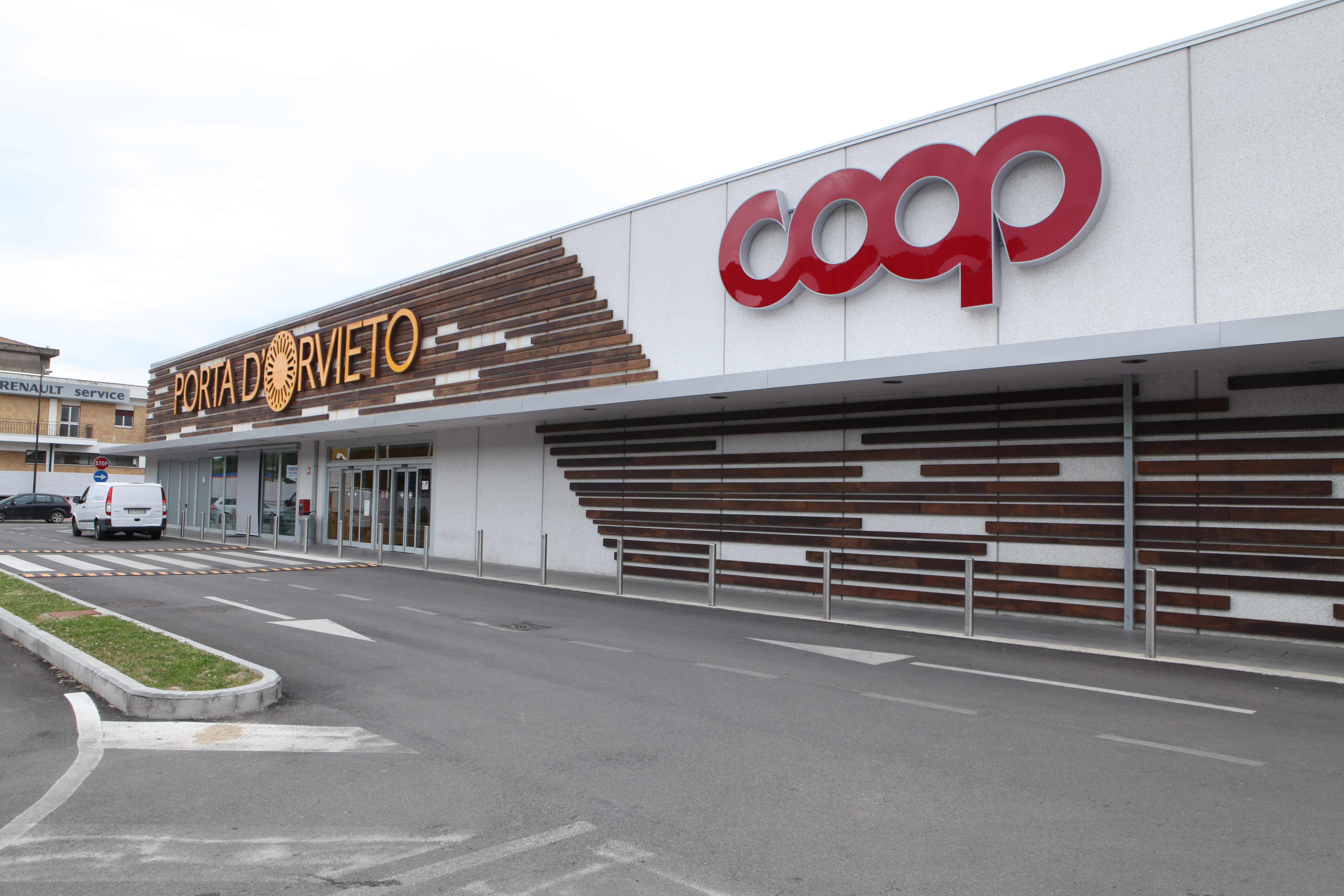 Il 9 Novembre 2013 viene inaugurato il Centro Commerciale Porta d'Orvieto Coop Centro Italia